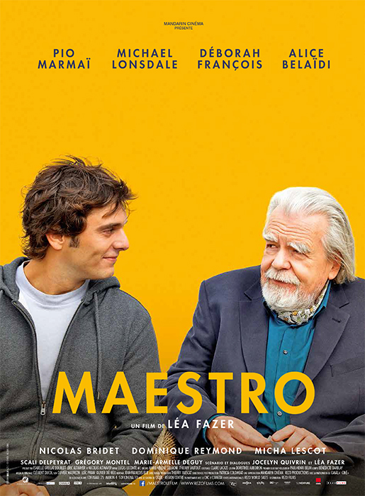 Poster of the movie Maestro (Q16661957)